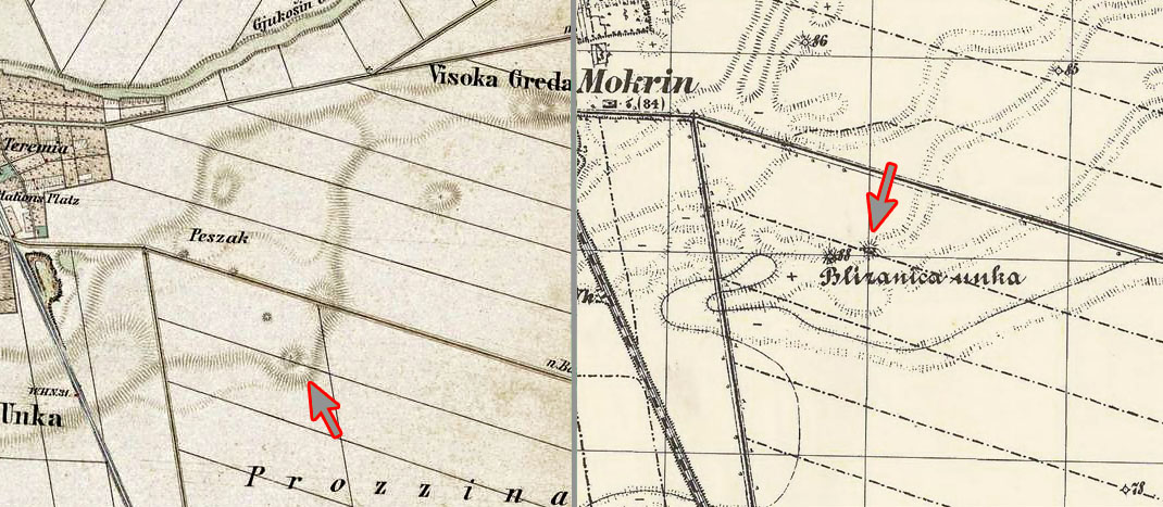 Kurgan "Pesak" (Vojvodina's Banat region) on maps from 1870 and 1880 cc.